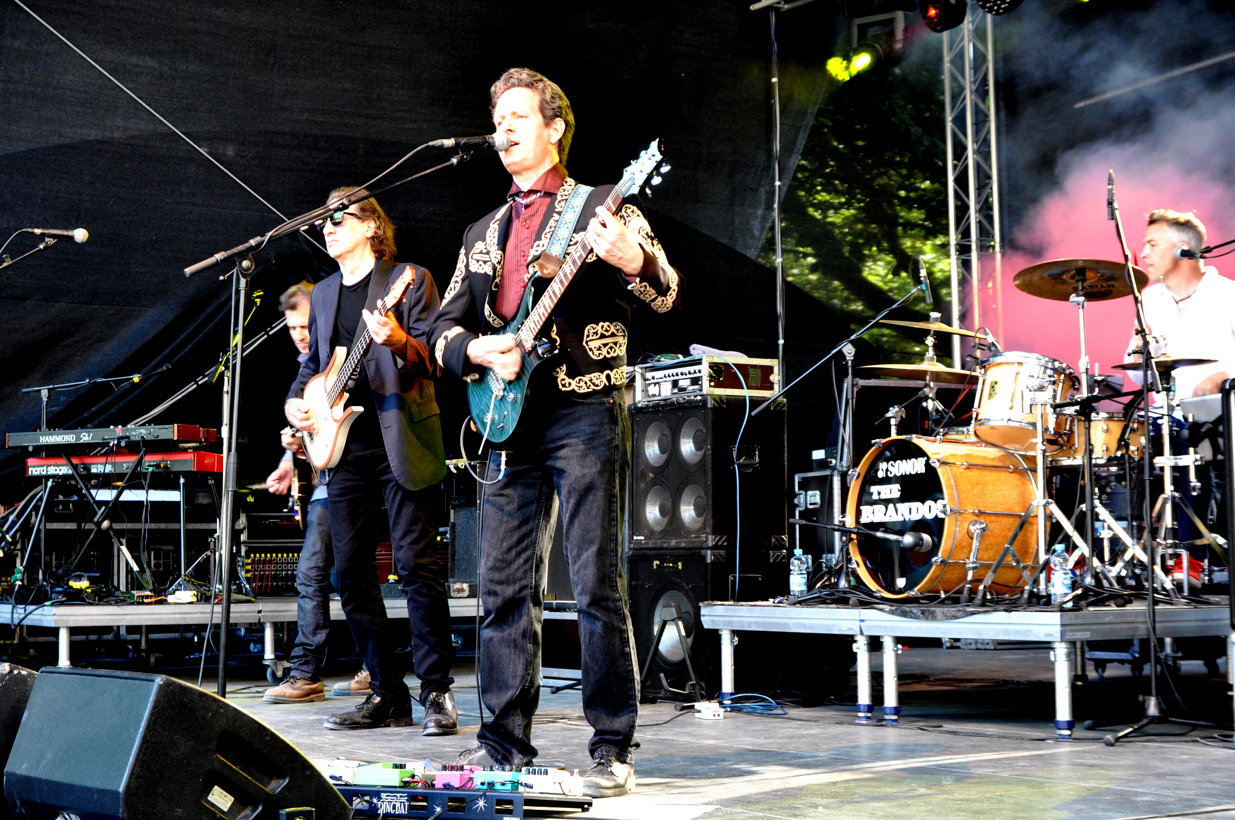 The Brandos (USA) appearance at the 2017 blacksheep festival at Bonfeld castle, Bad Rappenau, Baden-Wuerttemberg, Germany Festivalsommer This photo was created with the support of donations to Wikimedia Deutschland in the context of the CPB project "Festival Summer".